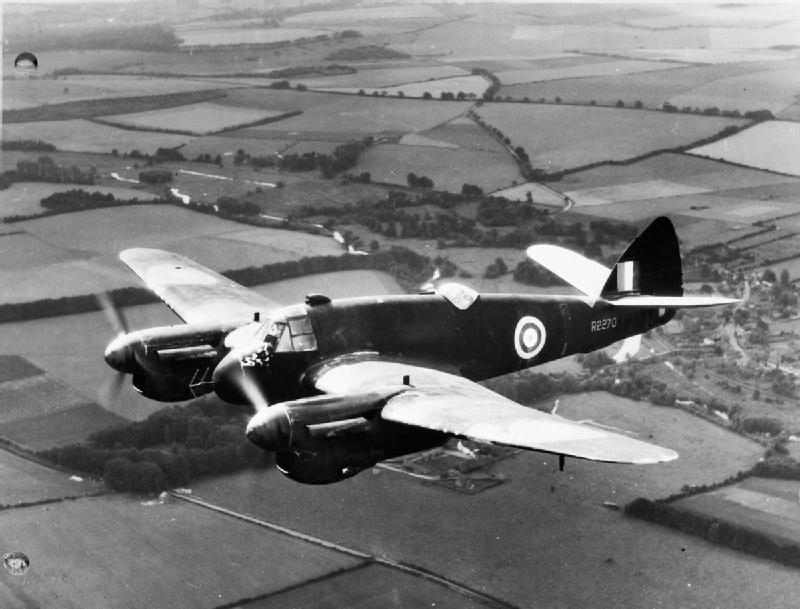 Aircraft of the Royal Air Force 1939-1945- Bristol Type 156 Beaufighter. The first production Beaufighter Mark IIF night fighter, R2270, fitted with dihedral tailplanes and equipped with AI Mark IV radar, in flight. This aircraft served with No. 406 Squadron RCAF.